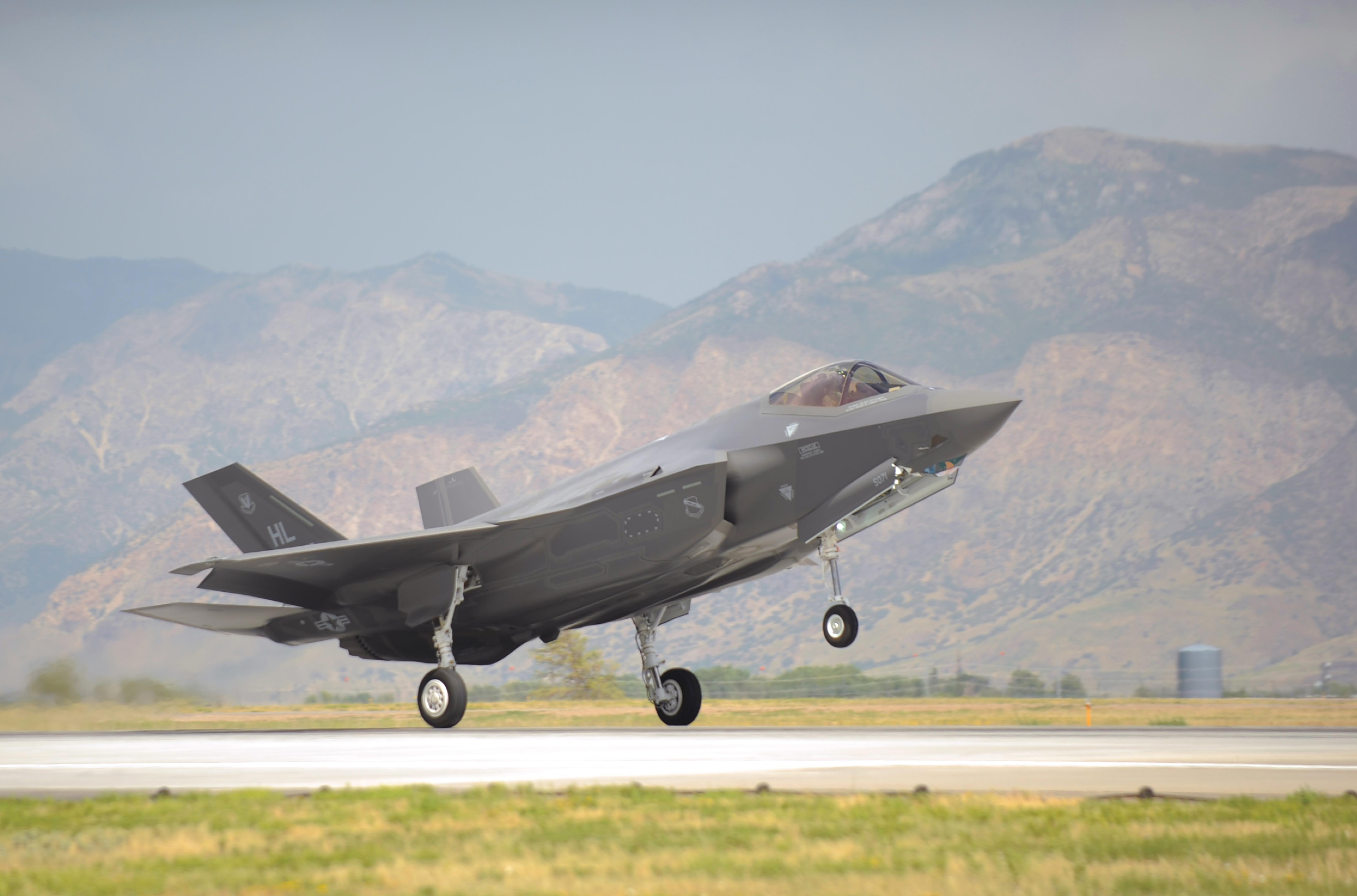 An F-35A Lightning II aircraft piloted by Col. David Lyons, the 388th Fighter Wing commander, touches down at Hill Air Force Base, Utah, Sept. 2, 2015. This and another fighter jet piloted by Lt. Col. Yosef Morris, the 34th Fighter Squadron director of operations, were the first two operational F-35s received at the base. The rest of the fleet of up to 72 F-35s are slated to arrive on a staggered basis through 2019